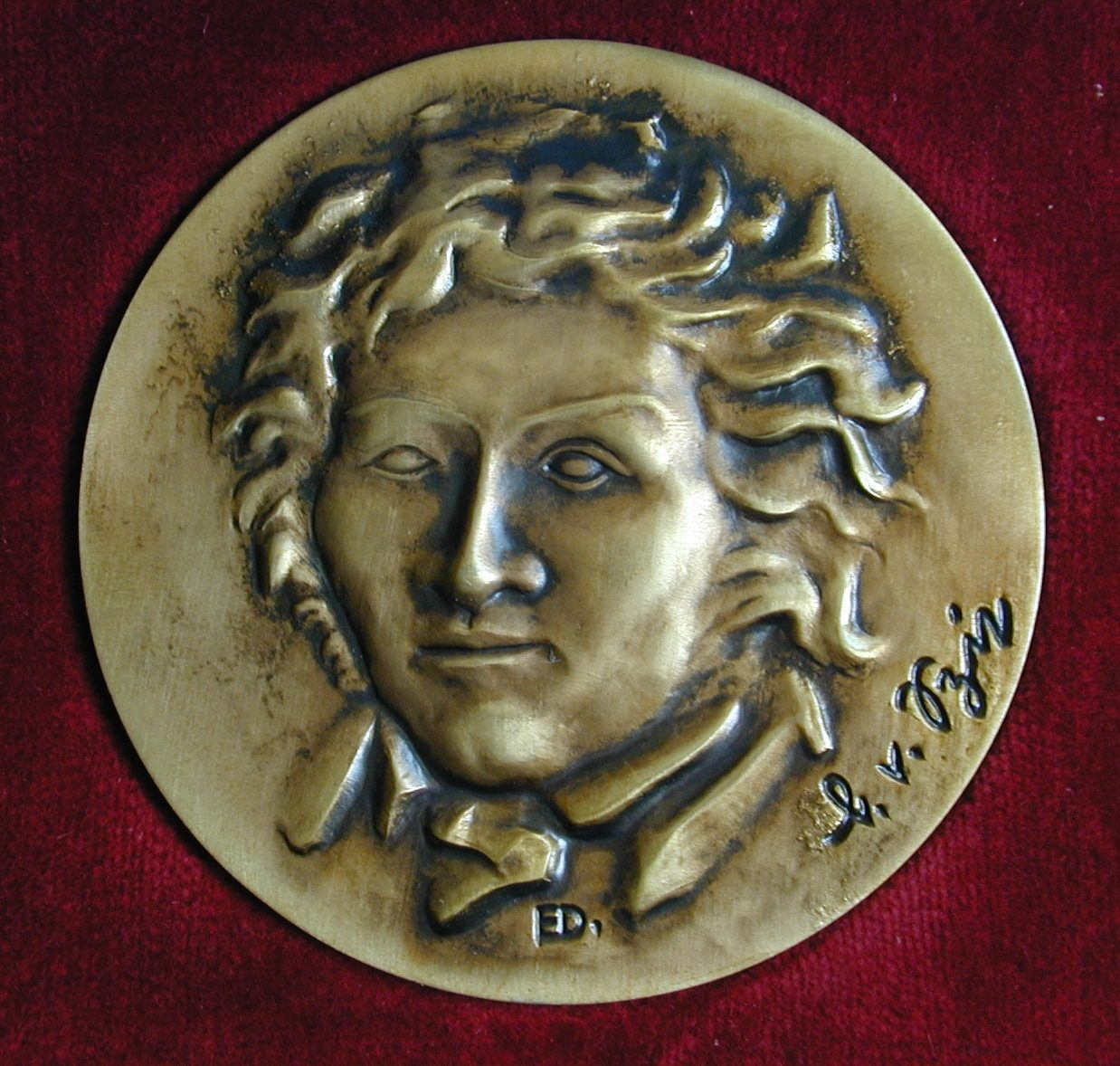 Riter-von-Spix-Medaille designed by Erich Diller, anterior side